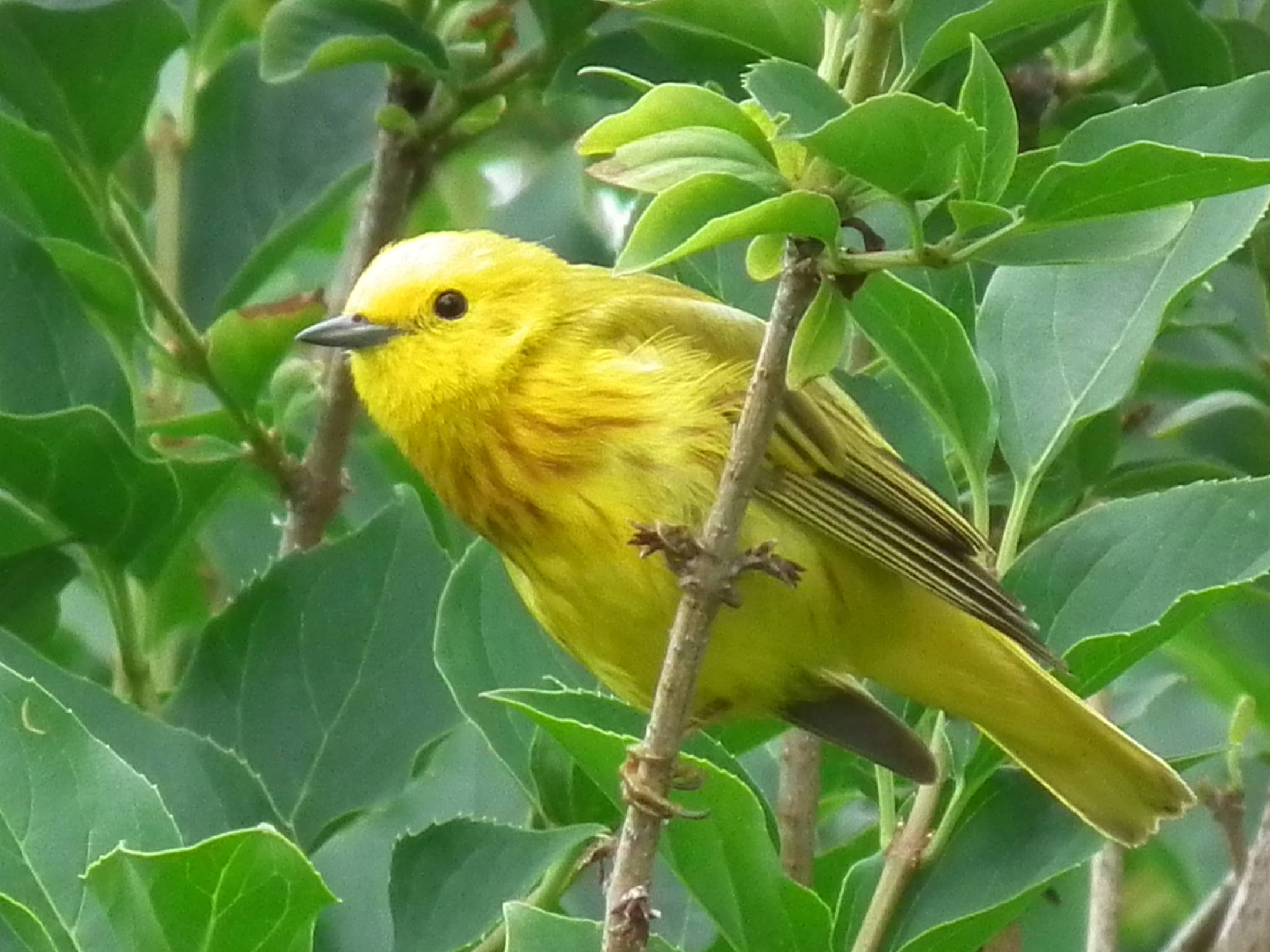 Yellow Warbler Setophaga aestiva in Ontario, Canada